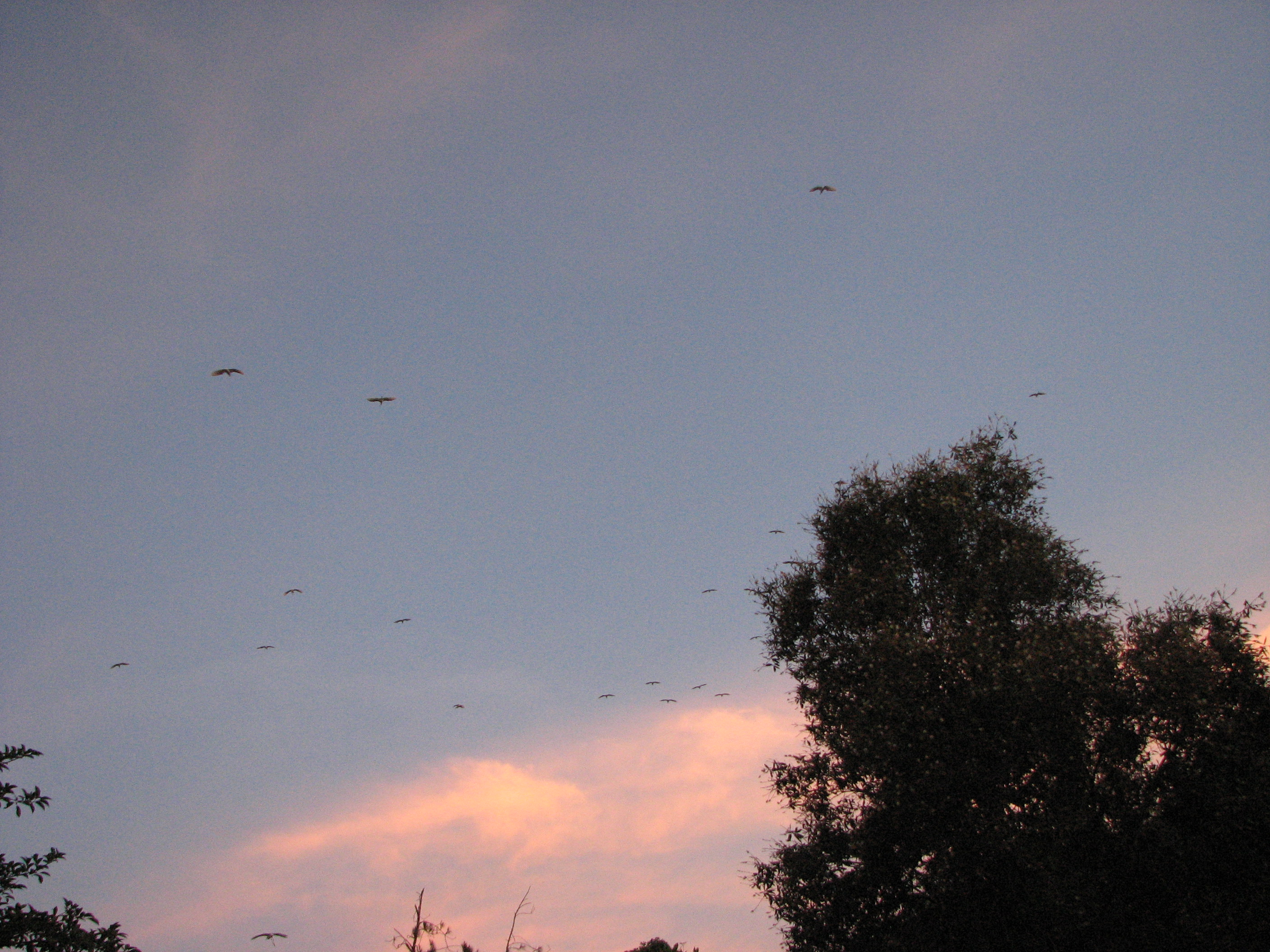 Ca Mau city bird sanctuary